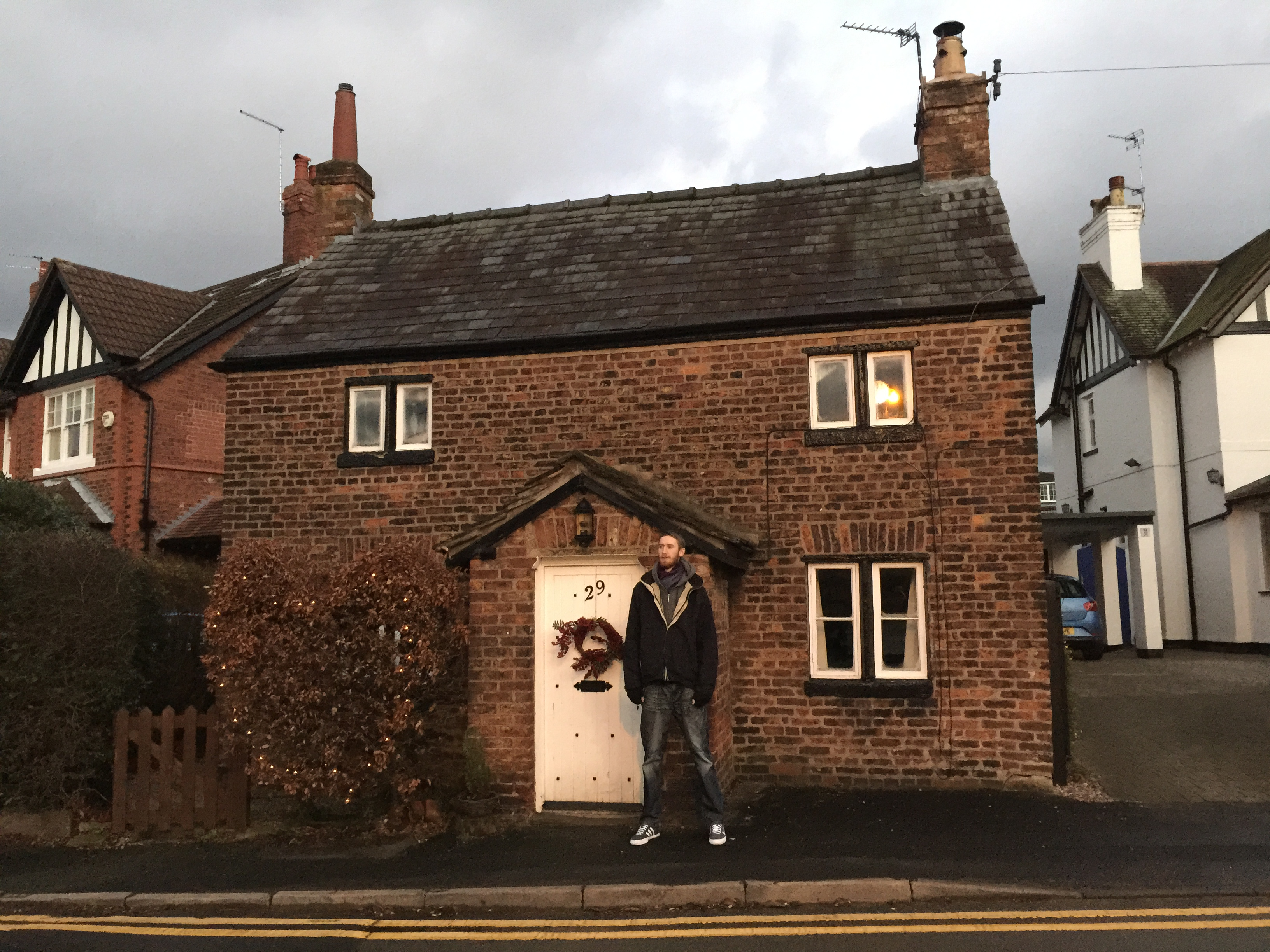 A small listed cottage in Alderley Edge village located in Manchester